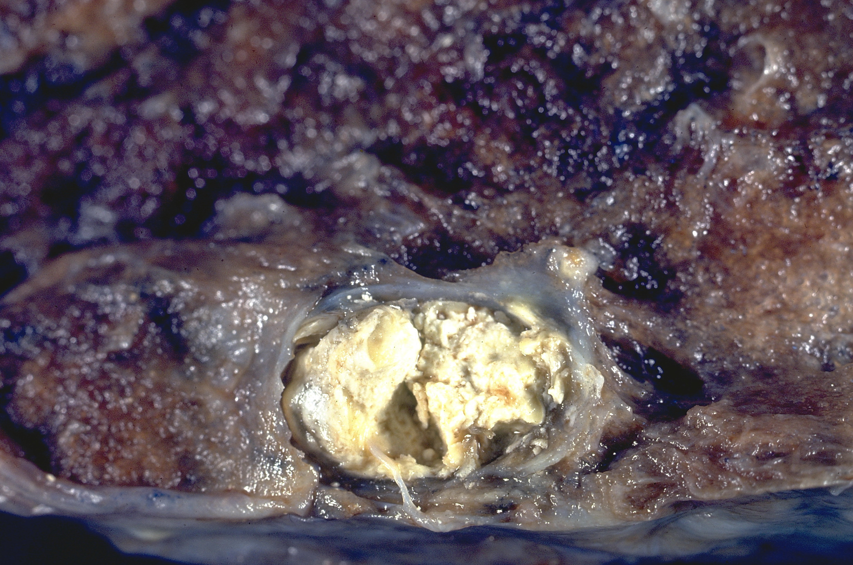 Initial (primary) infection with Mycobacterium. tuberculosis in an immunocompetent individual usually occurs in an upper region of the lung producing a sub-pleural lesion called a Ghon focus. Granulomatous involvement of peribronchial and/or hilar lymph nodes is frequent in primary tuberculosis due to lymphangitic spread from the Ghon focus. The early Ghon focus together with the lymph node lesion constitute the Ghon complex. These lesions undergo healing and over time usually evolve to fibrocalcific nodules. The combination of late fibrocalcific lesions of the lung and lymph node which evolved from the Ghon complex is referred to as the Ranke complex. This image provides a good example of "caseous necrosis" The "cheesy" appearance of the necrosis is due to incomplete proteolytic digestion of the necrotic tissue and is apparent only on gross or macroscopic examination. The terms "caseous", "caseating" and "caseation" are often used erroneously to describe the microscopic appearance of necrotizing granulomas.